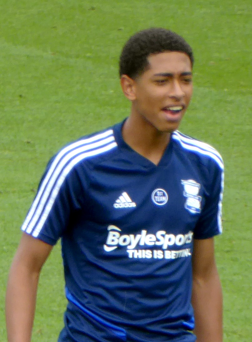 Jude Bellingham warms up before Birmingham City's EFL Championship match against Brentford at Griffin Park on 3 August 2019